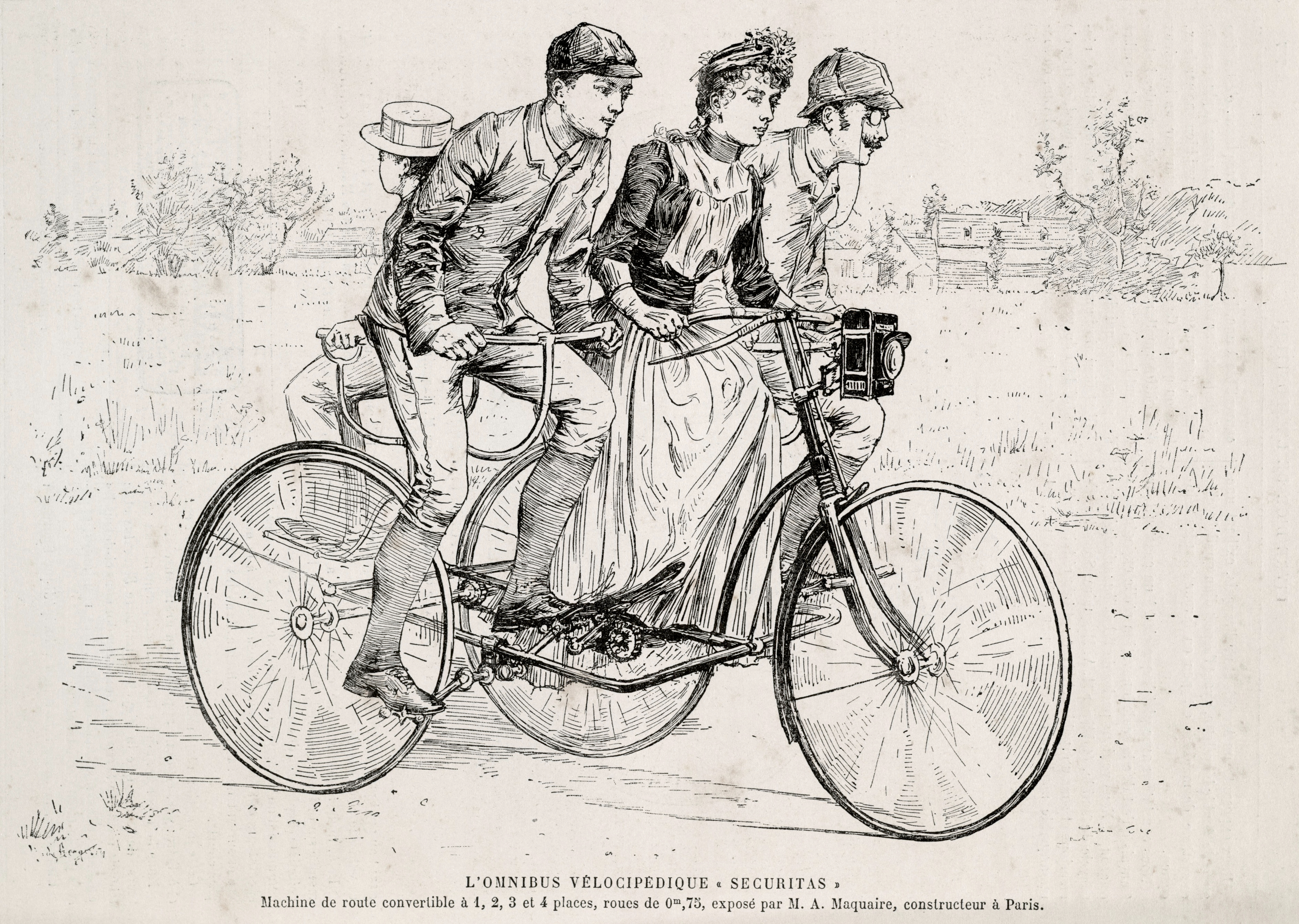 This three wheel velocipede was designed to accomodate up to 4 people. The seats could be added or removed according to the number of riders.